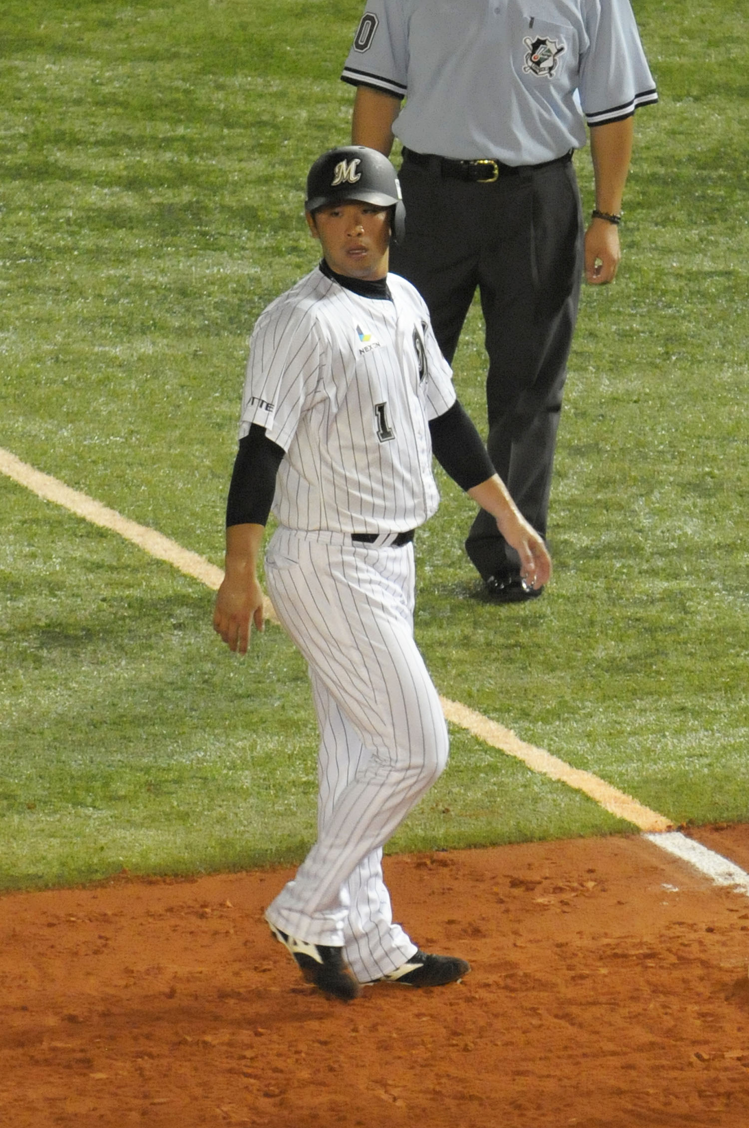 Ikuhiro Kiyota, outfielder of the Chiba Lotte Marines, at Chiba Marine Stadium.